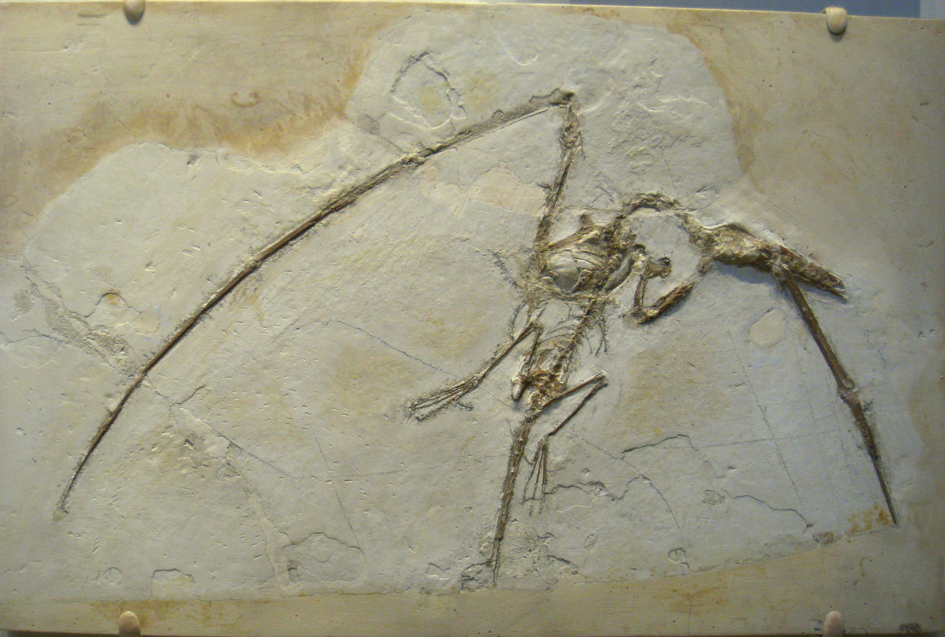 Rhamphorhynchus muensteri, Carnegie Museum of Natural History, Pittsburgh, Pennsylvania, USA.